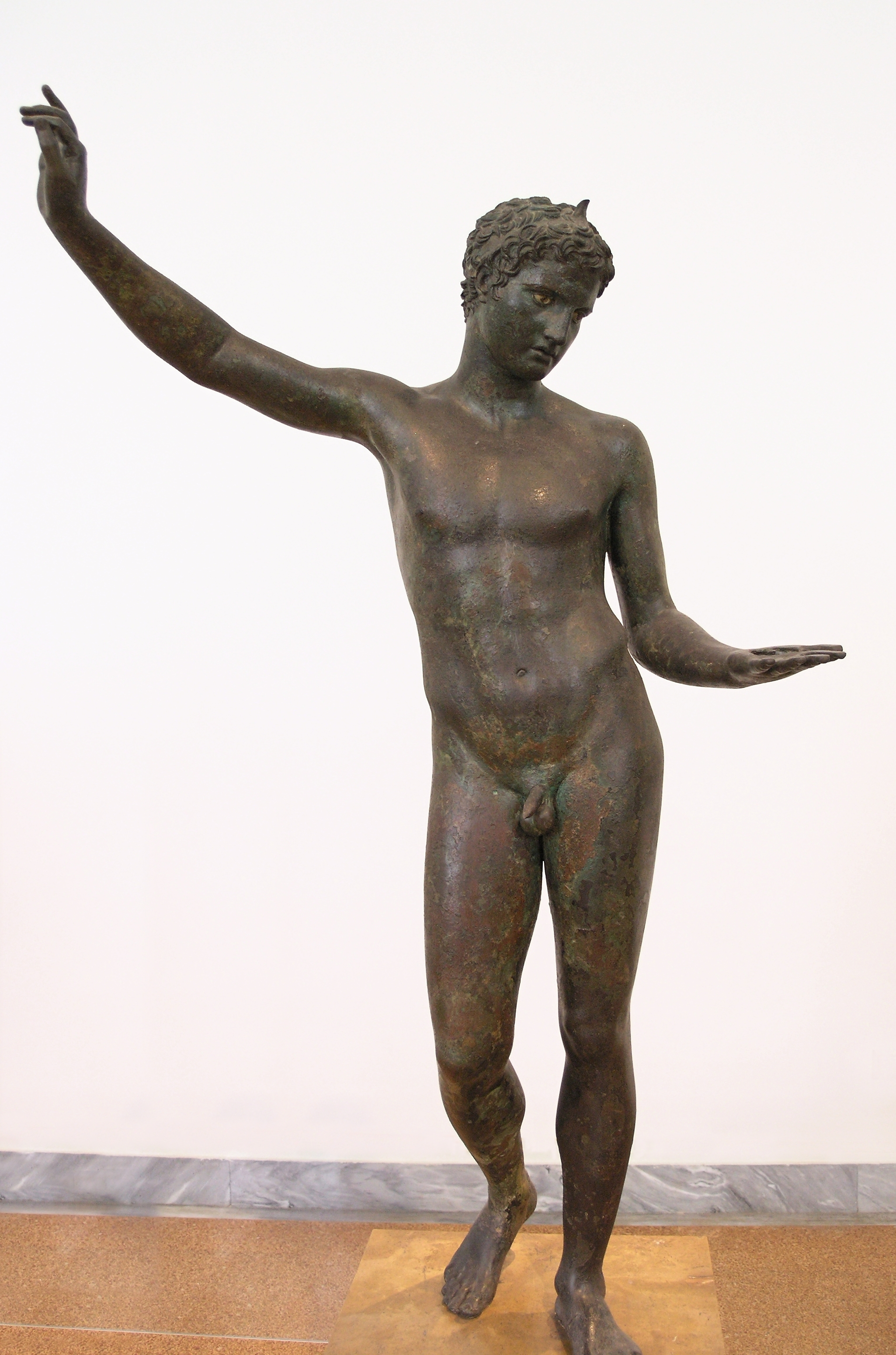 Marathon Youth or Ephebe of Marathon. Bronze statue of a young athlete, found in the sea near Marathon (Attic coast). The left hand was replaced at a later date by another shaped as a lamp. Work of the Praxiteles school, ca. 340-330 B.C.